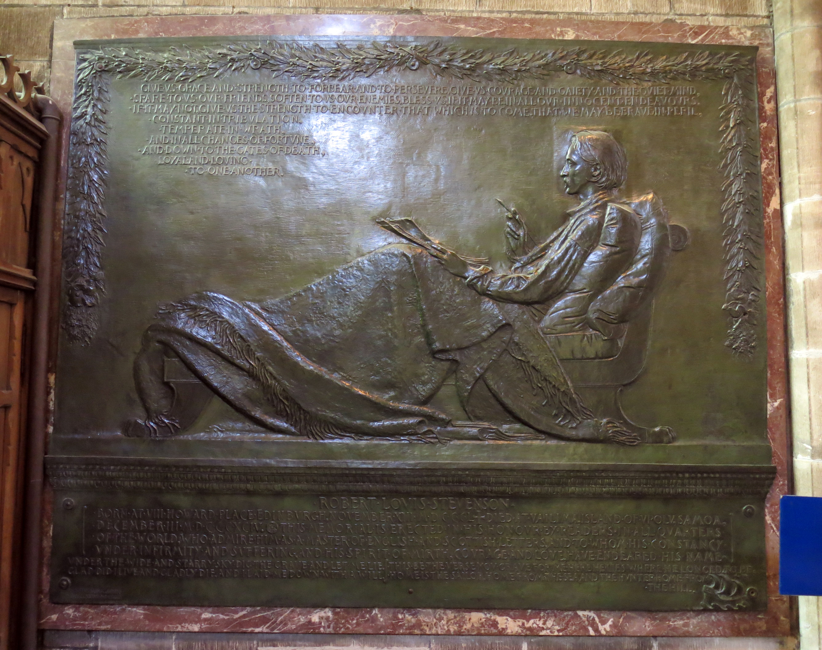 Edinburgh, St Giles' Cathedral.